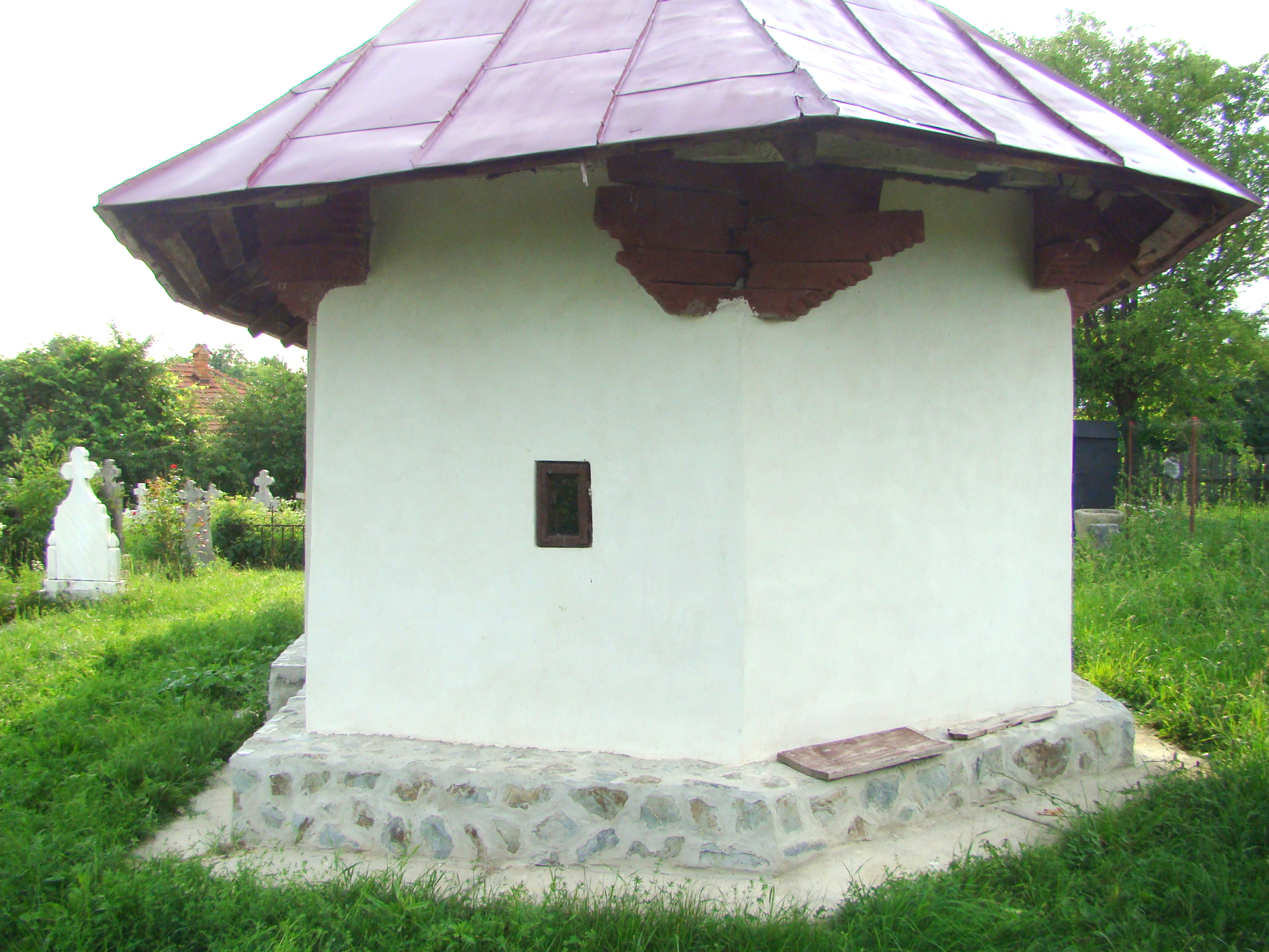 Wooden church in Becheni, Gorj county, Romania